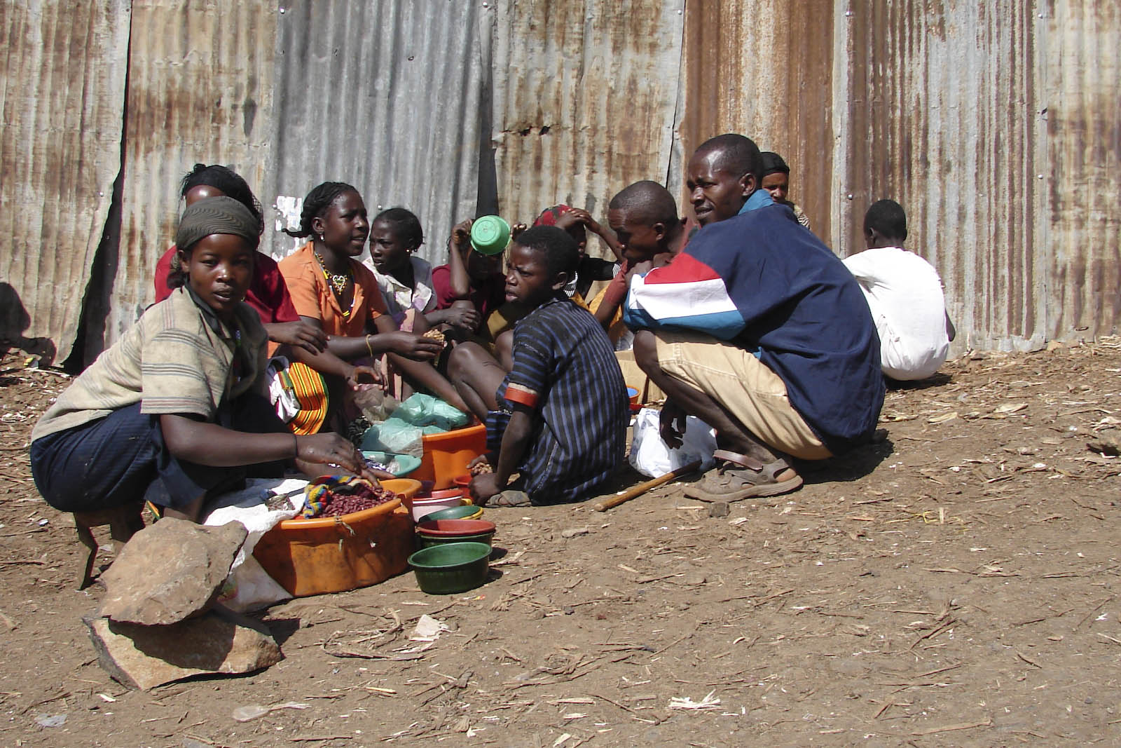 Market in Konso (Ethiopia)